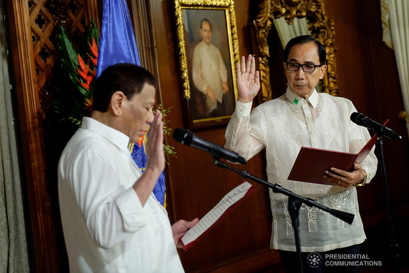 President Rodrigo Roa Duterte administers the oath to newly appointed Agriculture Acting Secretary William Dar during a ceremony at the Malacañan Palace on August 5, 2019.